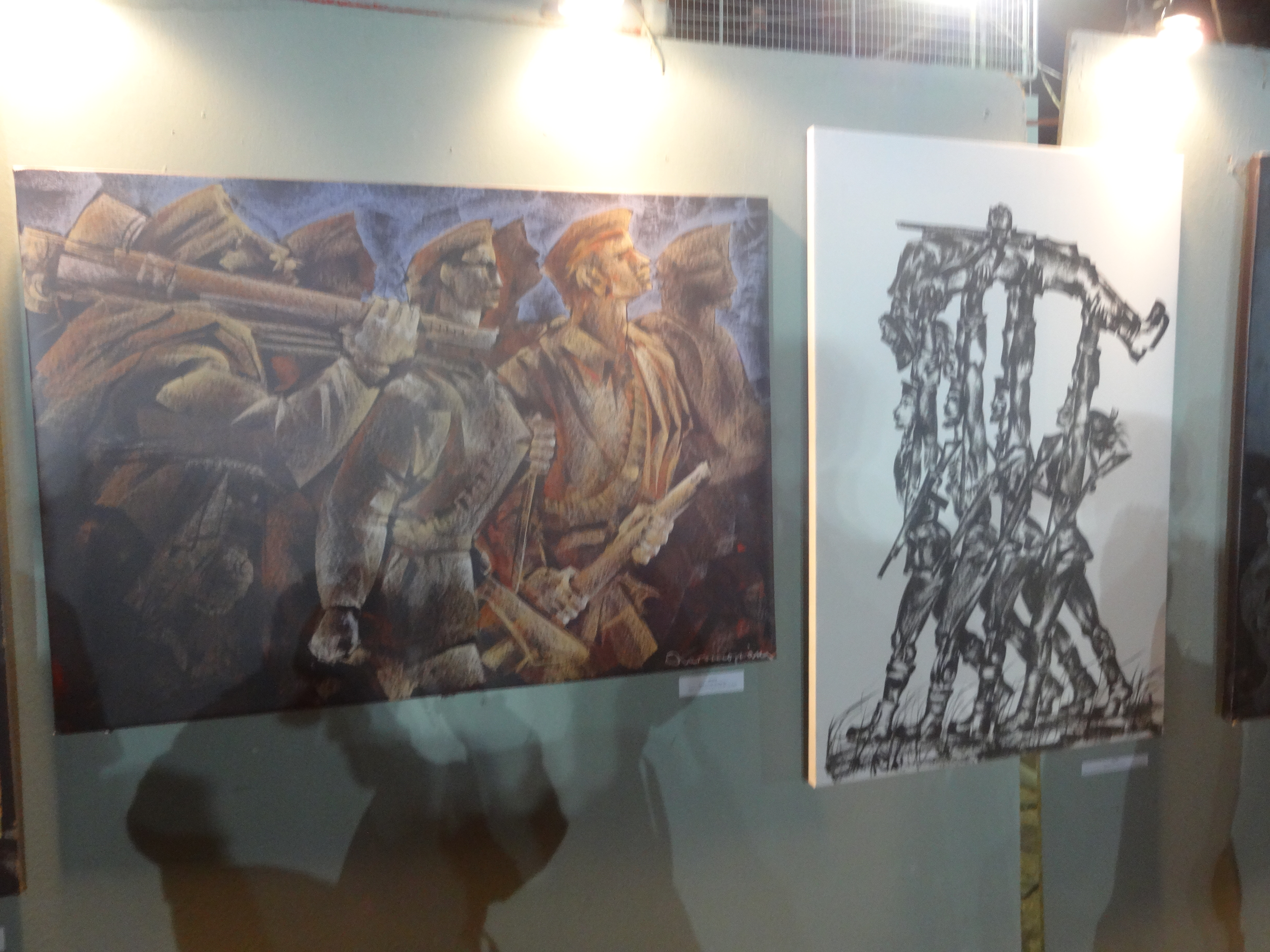 Stand at the Festival of Communist Youth of Greece, September 2016